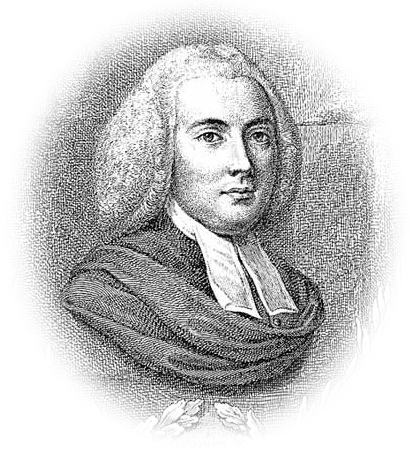 Jonathan Mayhew (1720 - July 9, 1766), noted minister in Boston. This image was etched by Giovanni Cipriani, London, 1767. If Cipriani's etching was ever subject to copyright restrictions, copyright has long since expired. This digital portrait is an extract from the larger etched image.